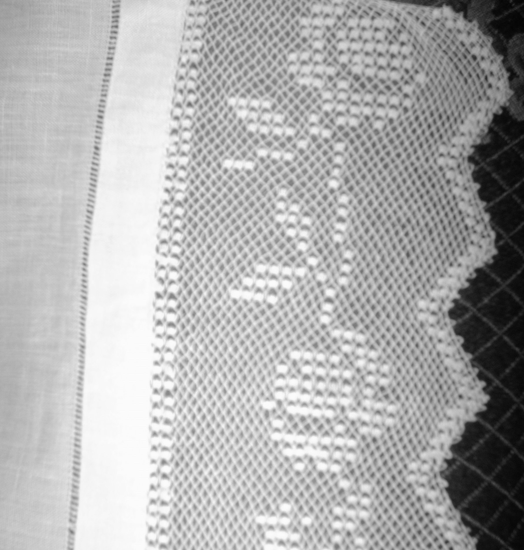 Typical puntino ad ago of the village of Latronico, Basilicata.